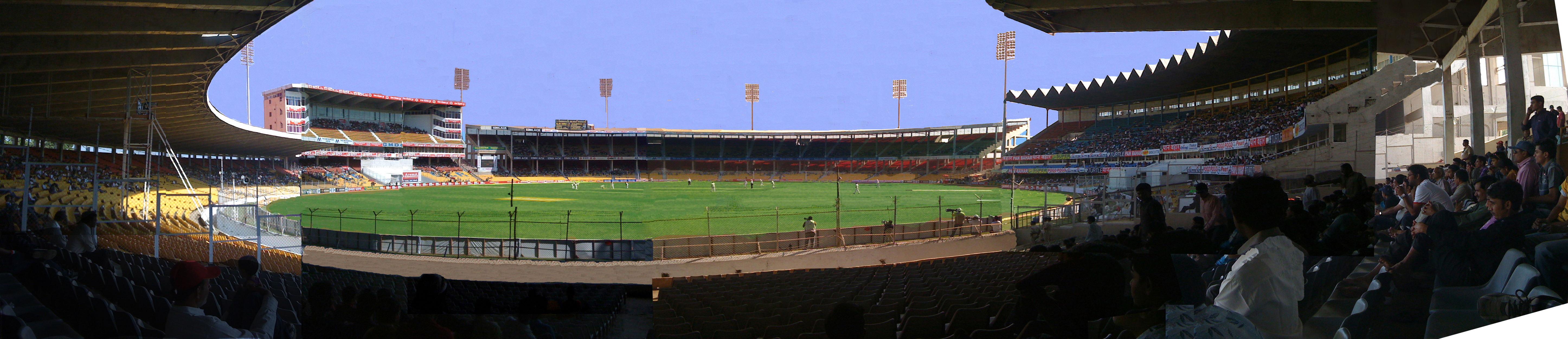 Digitally stitched image of Sardar Patel (Gujarat) Stadium